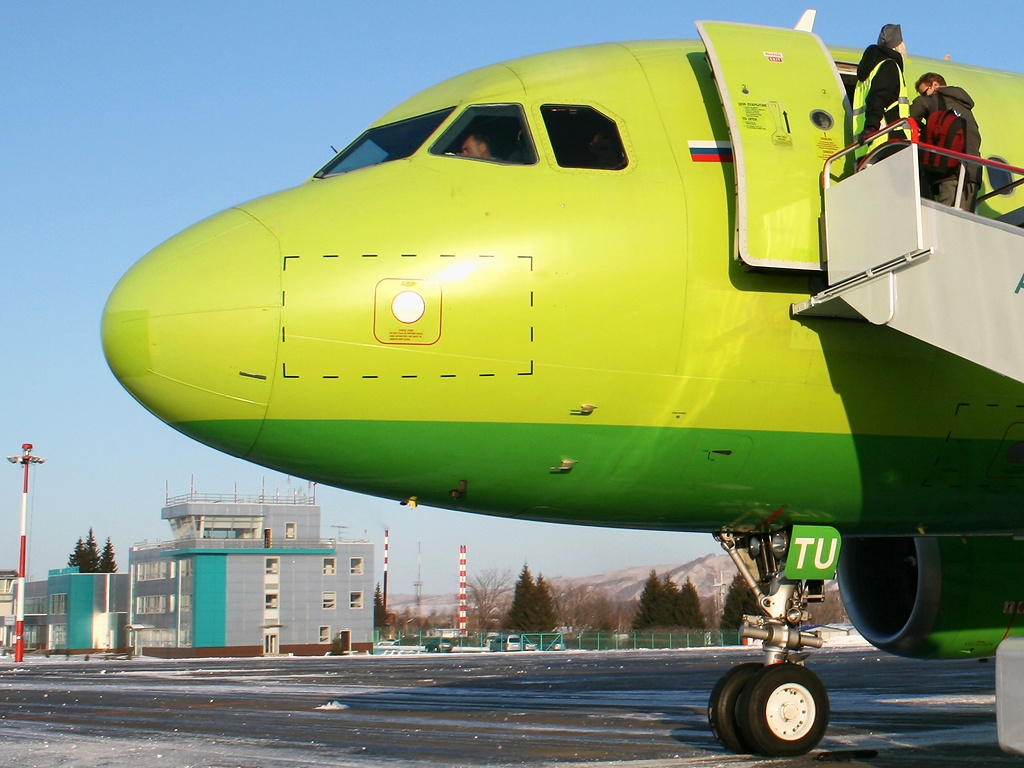 Technical flight to Novosibirsk. Boarding. Mr Levitin and Mr Neradko onboard (new airport for Airbus planes).